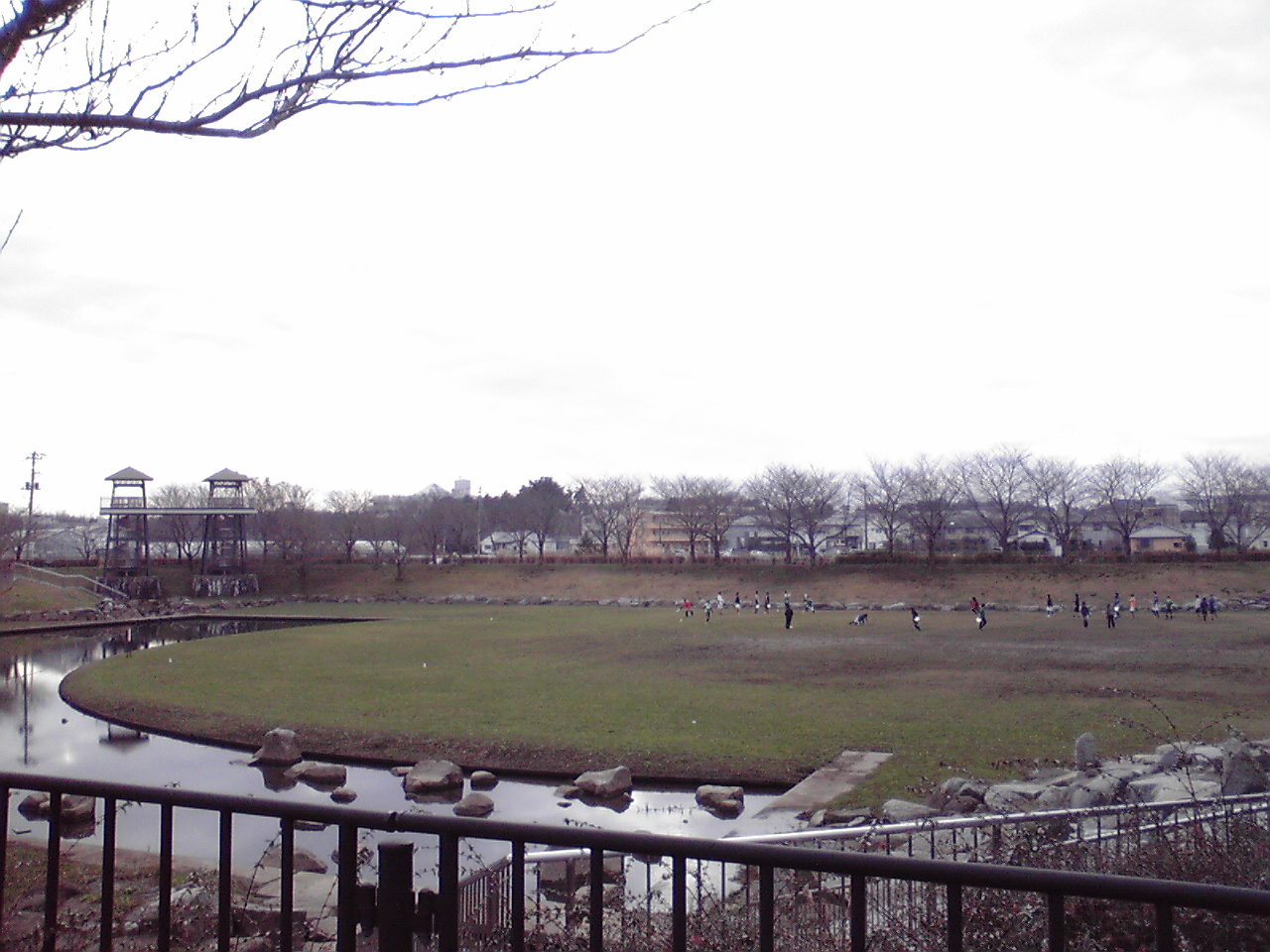 This park is located in Sakura 1 chome, Tsukuba , Ibaraki, Japan.